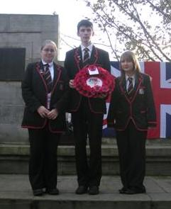 Gavin scott